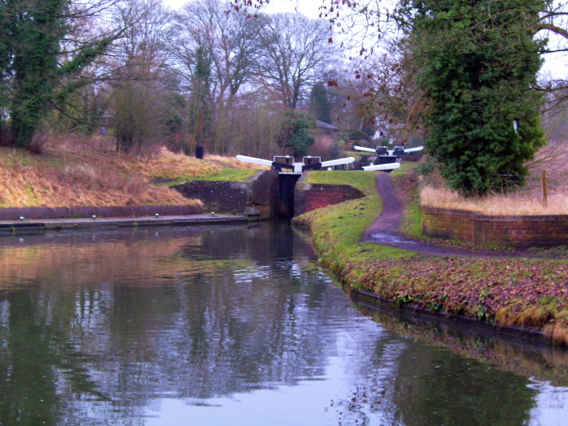 Stourbridge Canal descending through locks to meet the Staffs. and Worcs. Canal